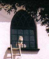 A blocked up or false chapel-style window. A cat has just been painted here to appear as if it was looking through the non-existent window panes.